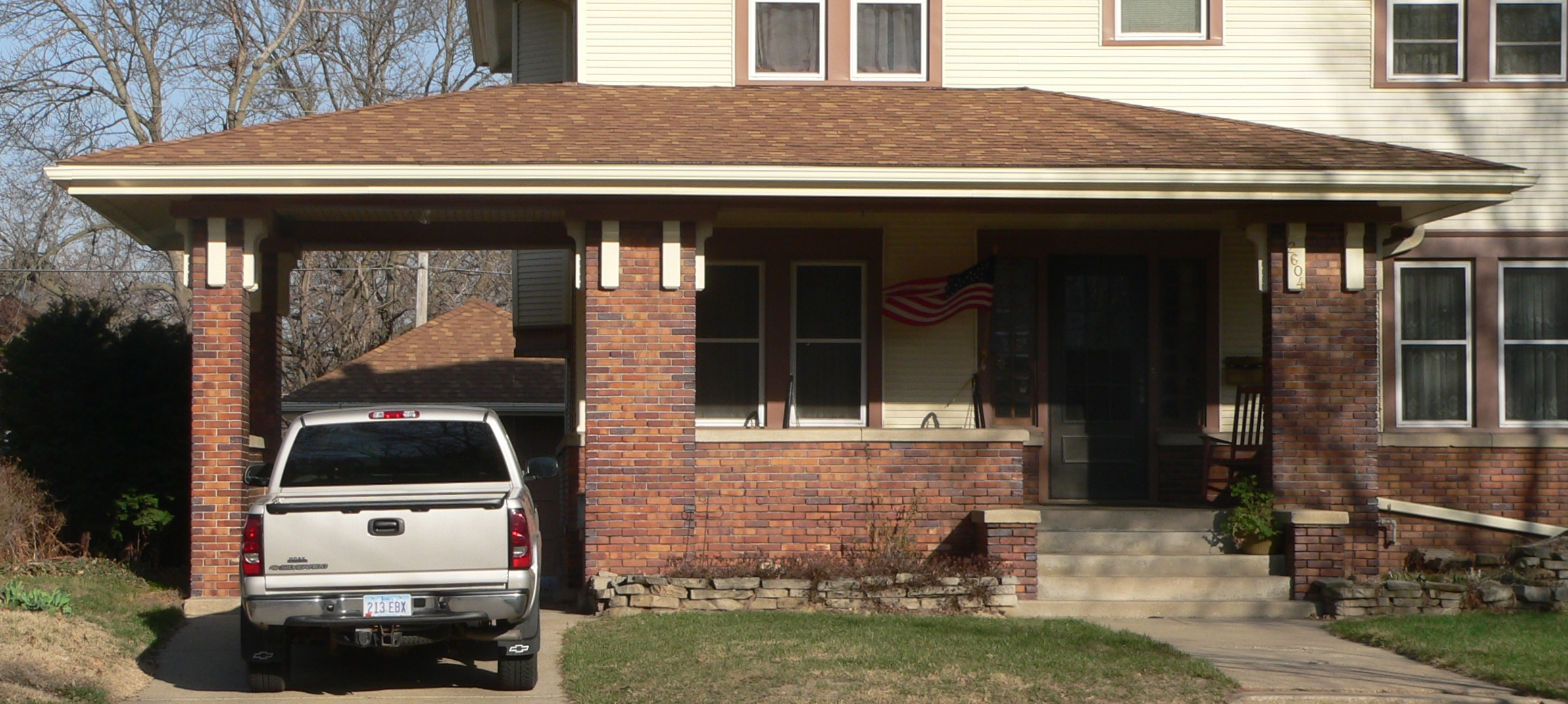 Ben and Harriet Schulein house, located at 2604 Jackson Street in Sioux City, Iowa: front porch and porte-cochere.